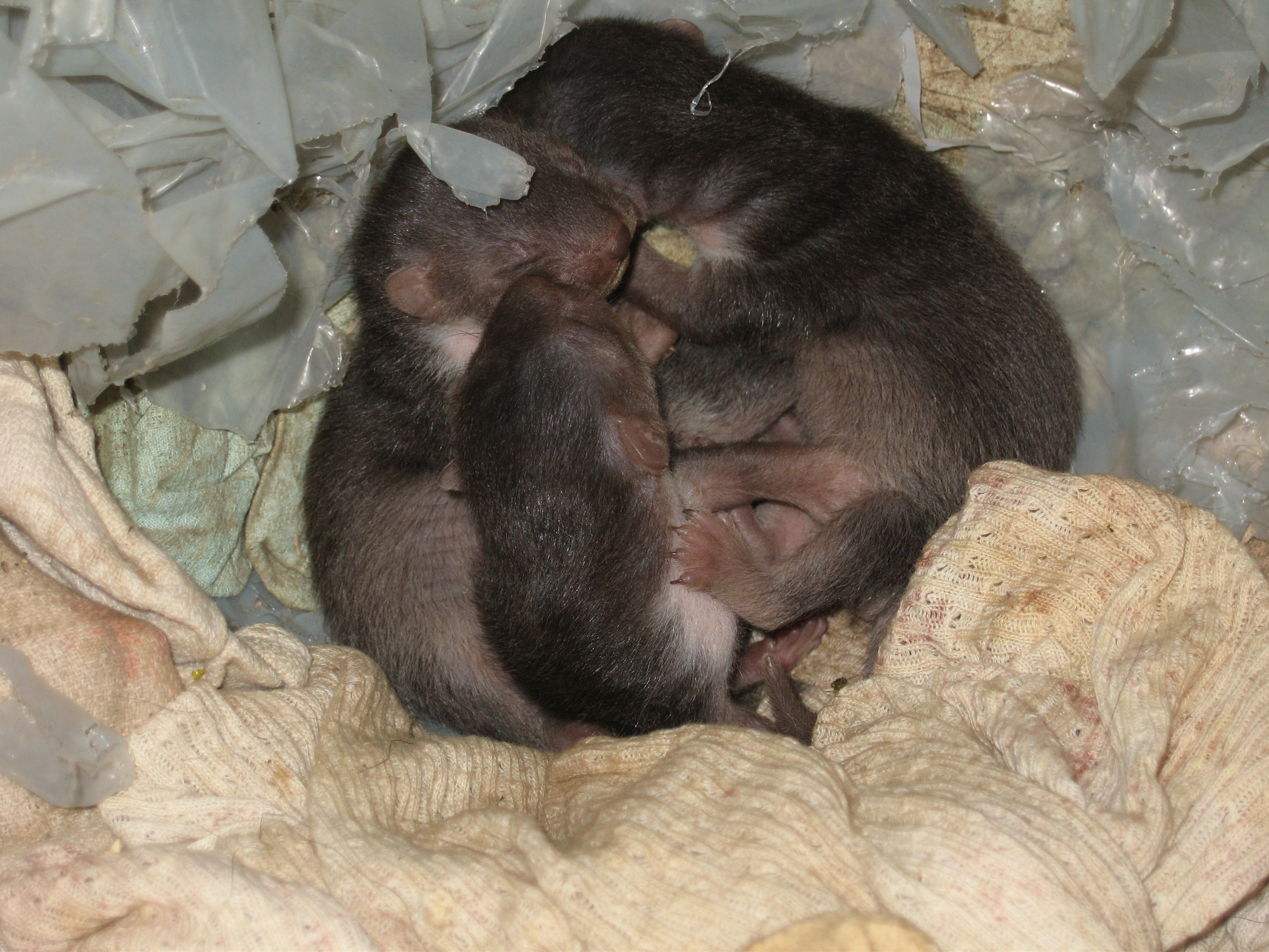 Beech Marten (Martes foina) - nest and litter of three found in а farm outbuilding in the village of Orlintzi, Bulgaria